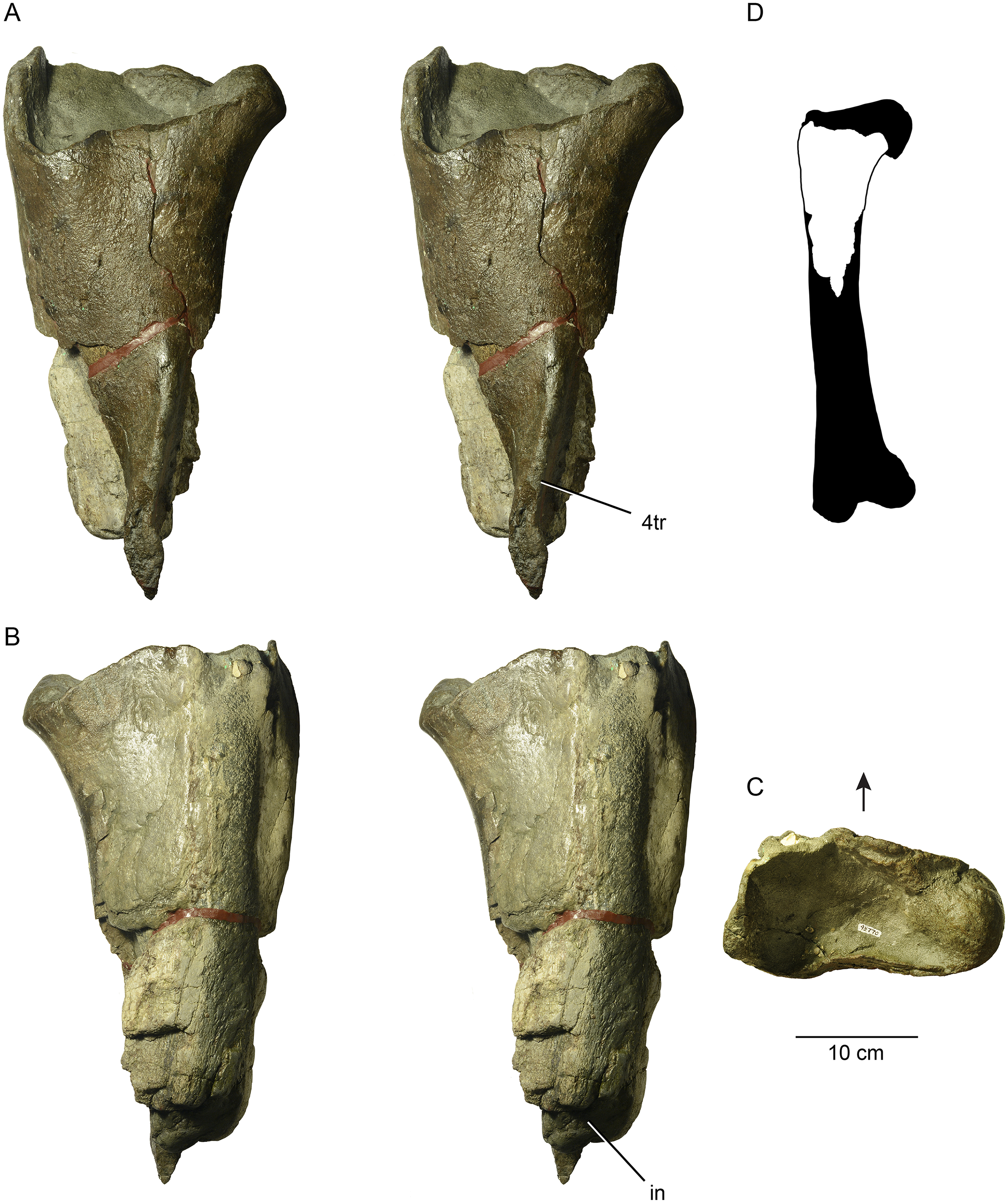 The proximal femur of a large theropod dinosaur from Washington State. Stereopairs of UWBM 95770 in posterior (A), anterior (B) view. Proximal view (C) of UWBM 95770, with arrow indicating anterior direction. Silhouette of complete theropod femur (D) based on the tyrannosaurid Daspletosaurus torosus (TMP 2001.36.01), with corresponding portion of UWBM 95770 highlighted. Abbreviations: 4tr, fourth trochanter; in, matrix infilling of hollow marrow cavity.